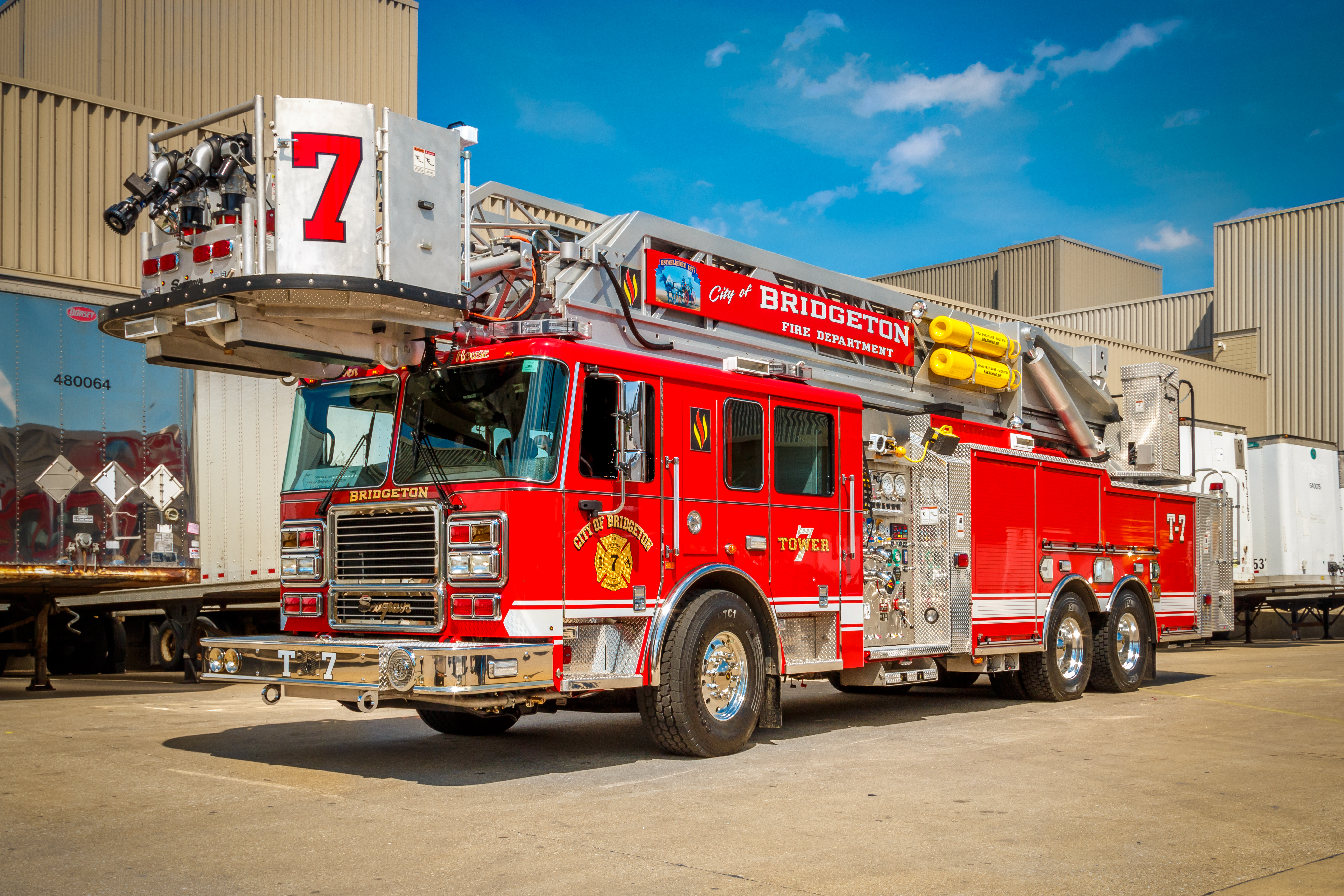 Seagrave Marauder II with Apollo 2 105' rear mount tower